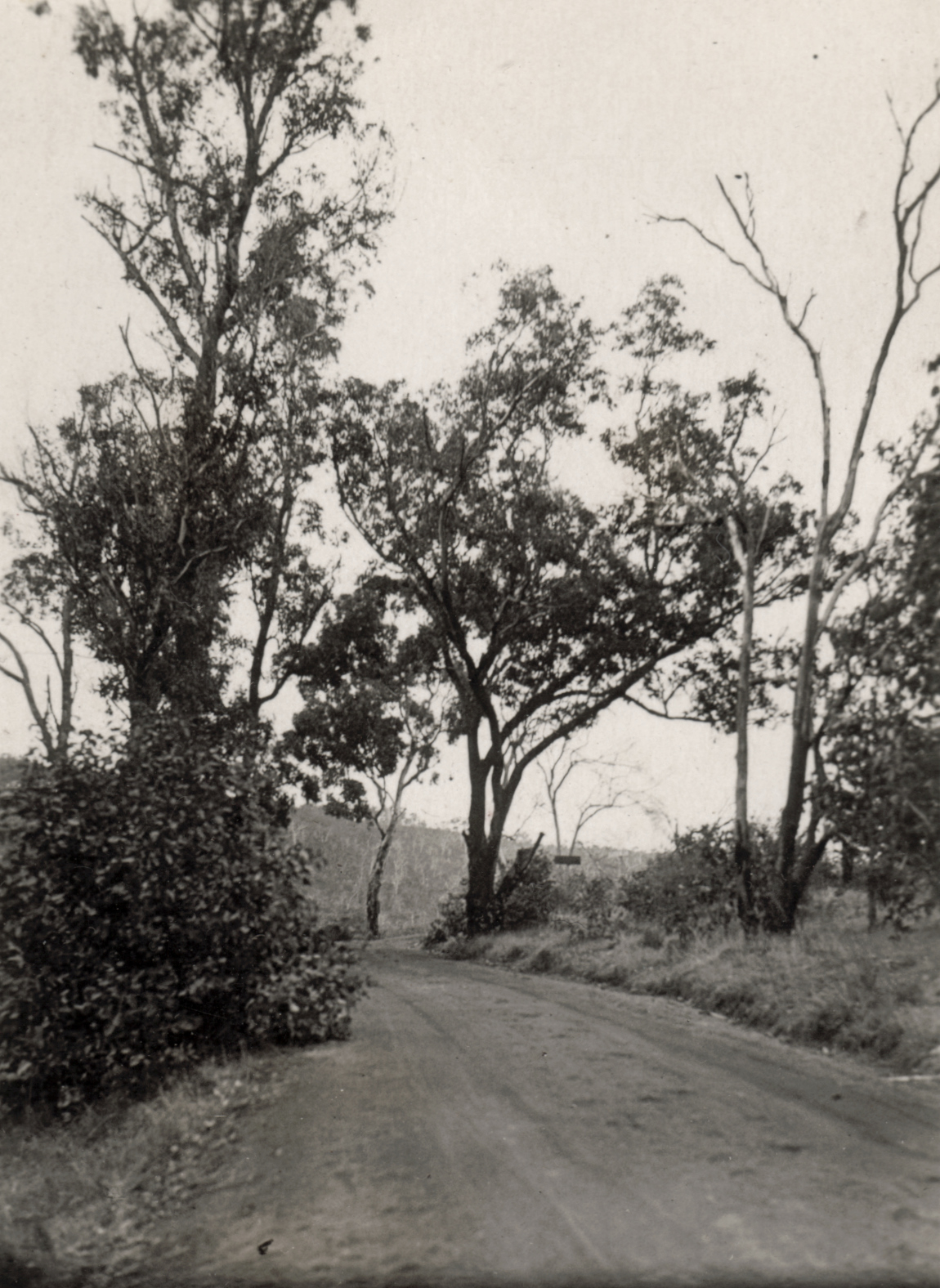 Brookton Highway (now) looking up Roleystone Valley, 20 March 1927